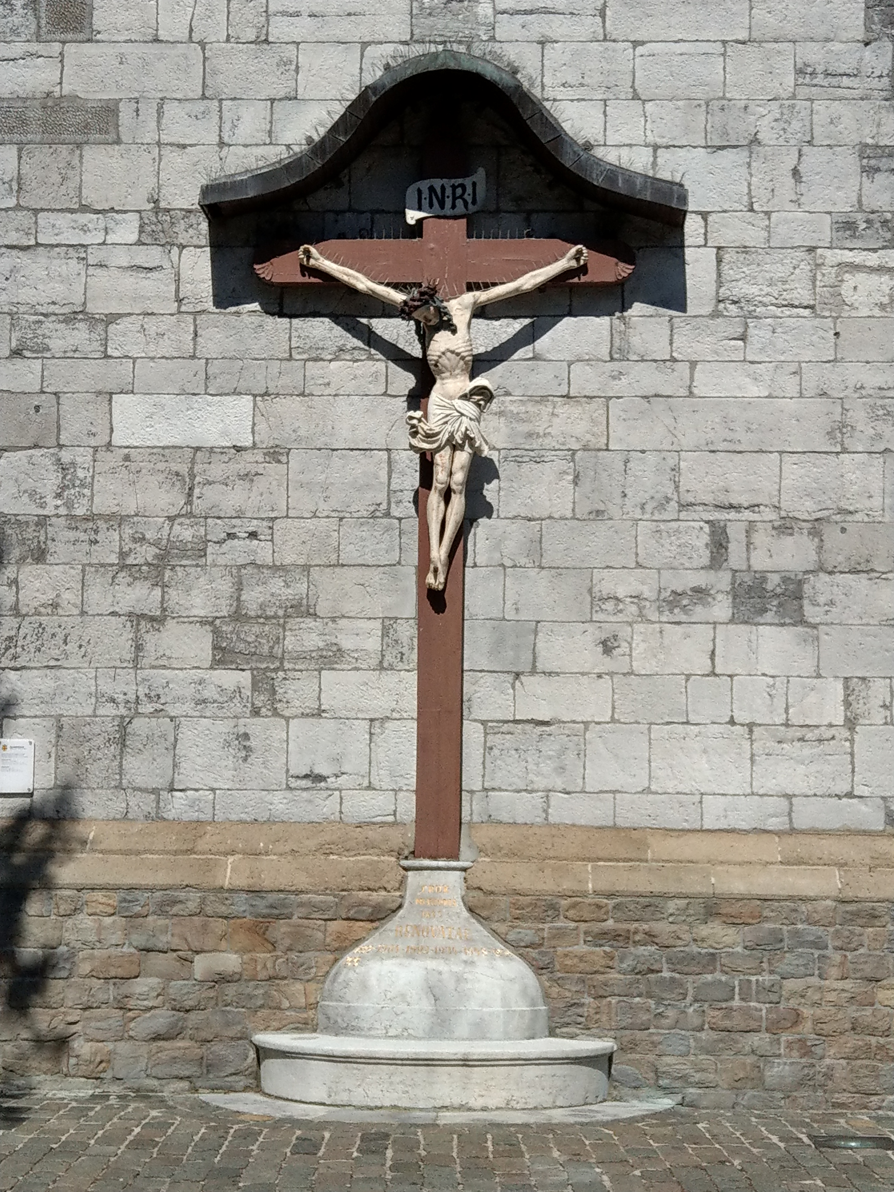 Missionary cross erected during the first popular mission in Eupen 1852. The cross was completely renovated in 1975.